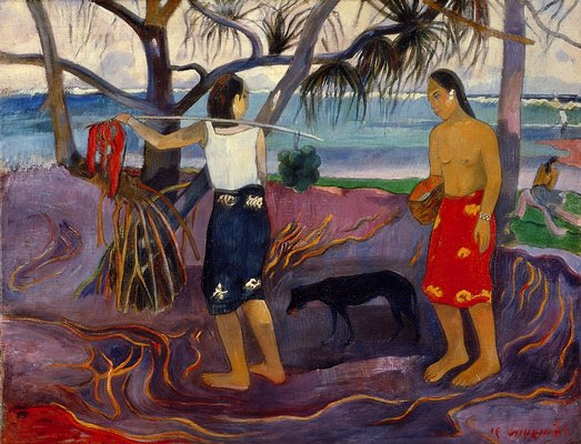 Tableau Raro_te_Oviri_Sous_les_pandanus Oil on Canvas 67.3 x 90.8 cm Dallas Museum of Art Dimensions